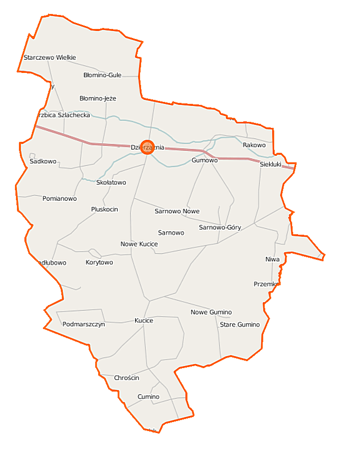 Map of Gmina Dzierzążnia, Poland This map of Dzierzążnia (gmina) was created from OpenStreetMap project data, collected by the community. This map may be incomplete, and may contain errors. Don't rely solely on it for navigation. Border coordinates52.677220.1393←↕→20.326152.5267